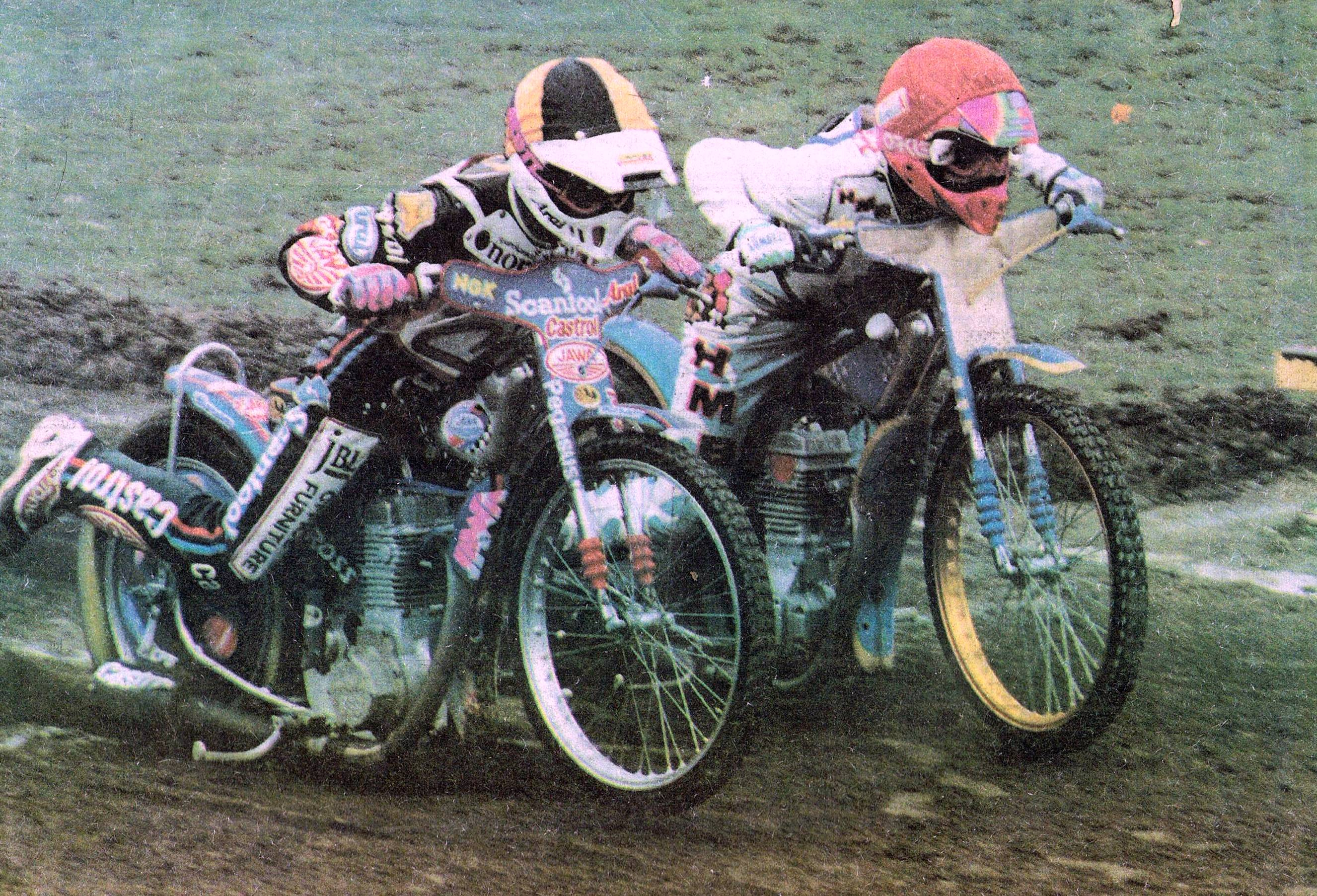 Hans Nielsen and Piotr Świst. Speedway.